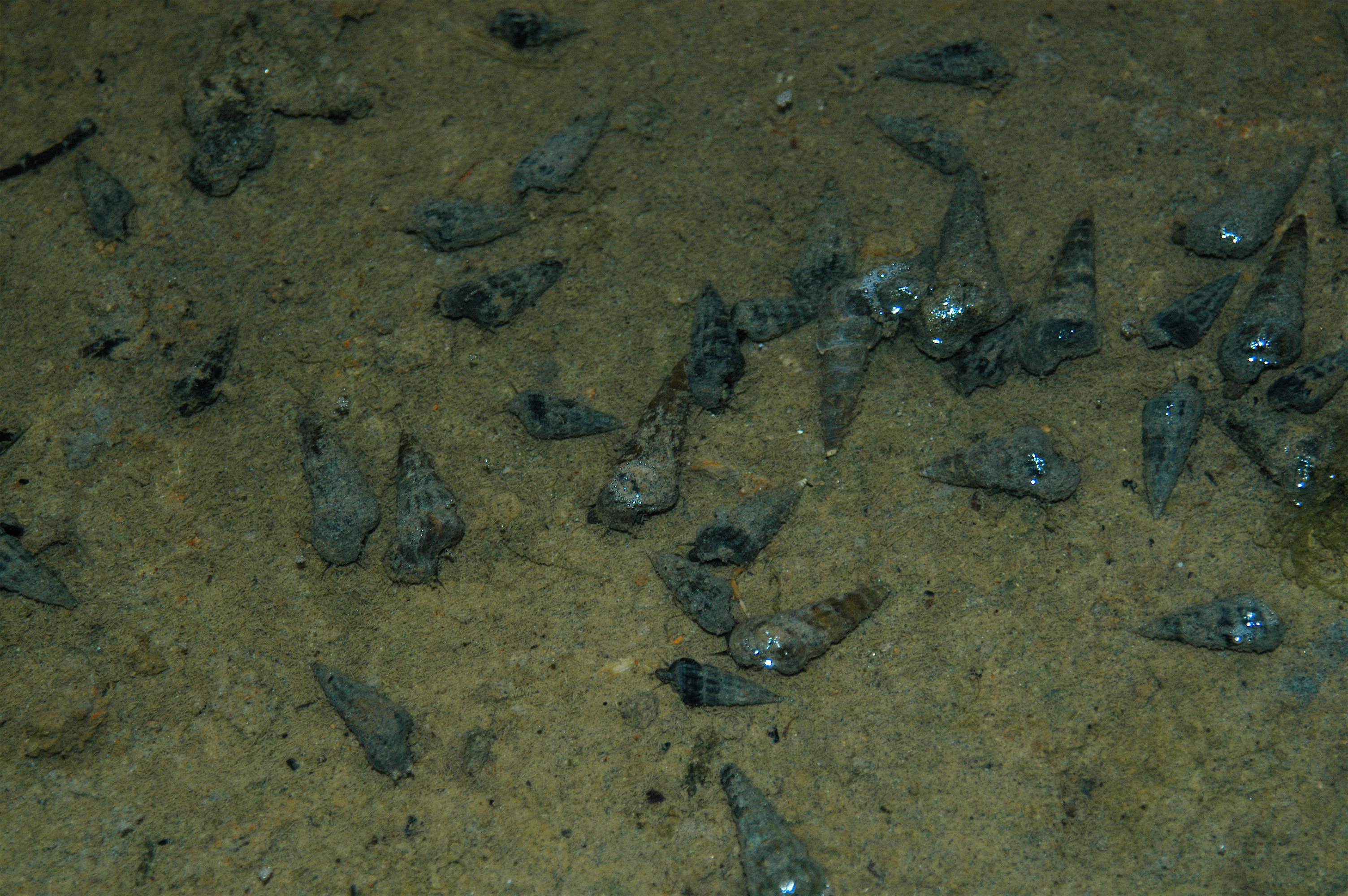 These are found in the salt marsh and the bay mudflats. Very easy to spot because there are literally hundreds of these California Horn Shells.